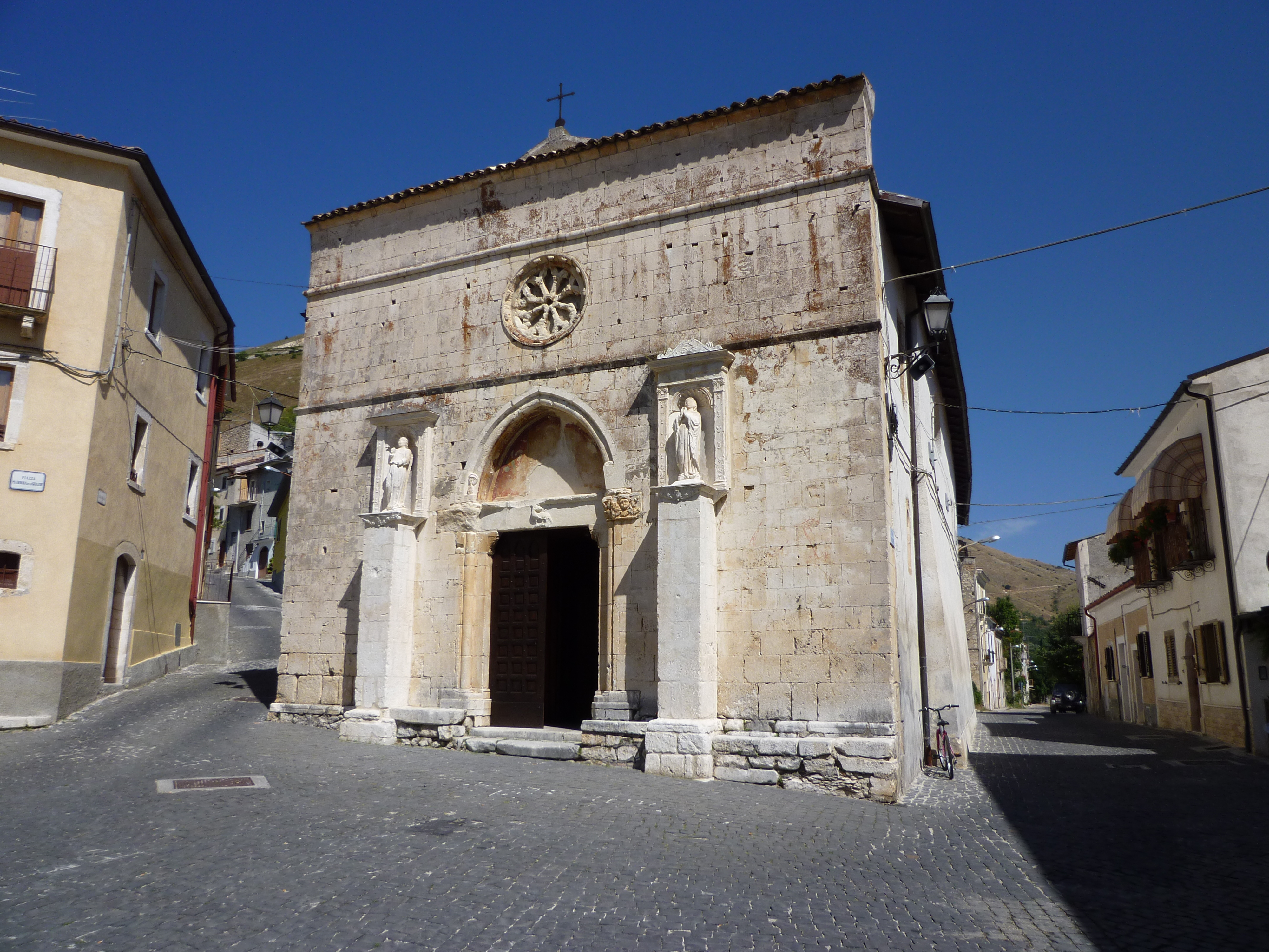 The church of Santa Maria delle Grazie, Cocullo, in the province of L'Aquila, Abruzzo